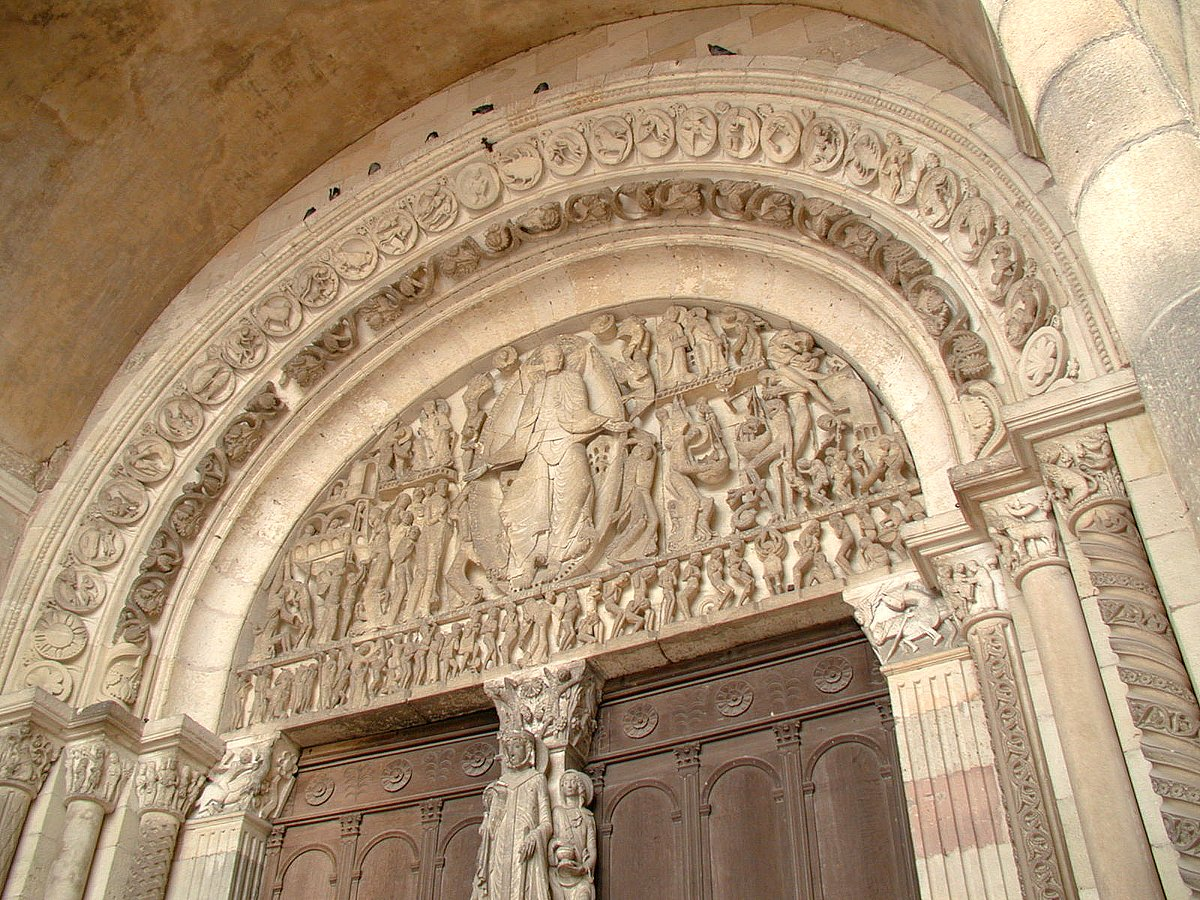 The tympanon of Autun Cathedral (Burgundy, France) : a XIIth c. depiction of the Judgment Day.